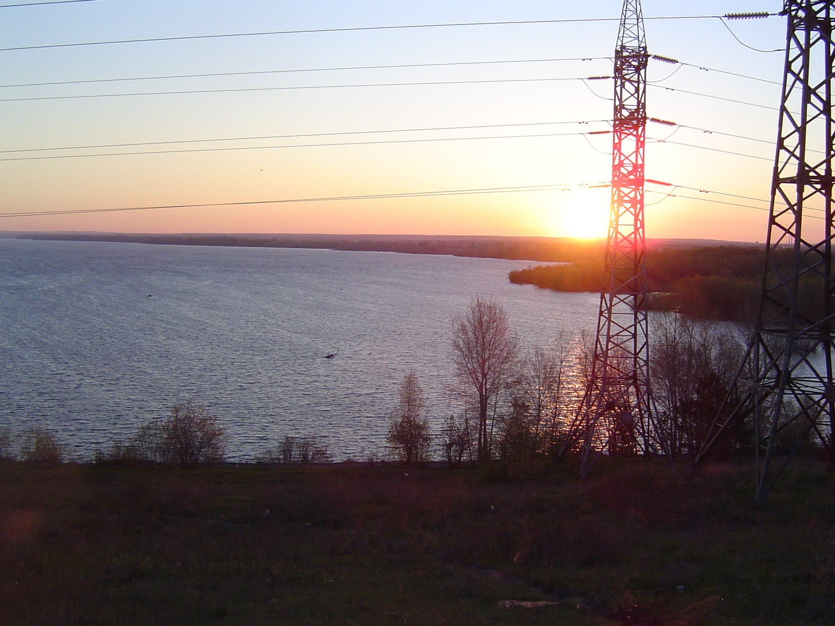 View of the Ob River near Novosibirsk hydroelectric power station (Russia).